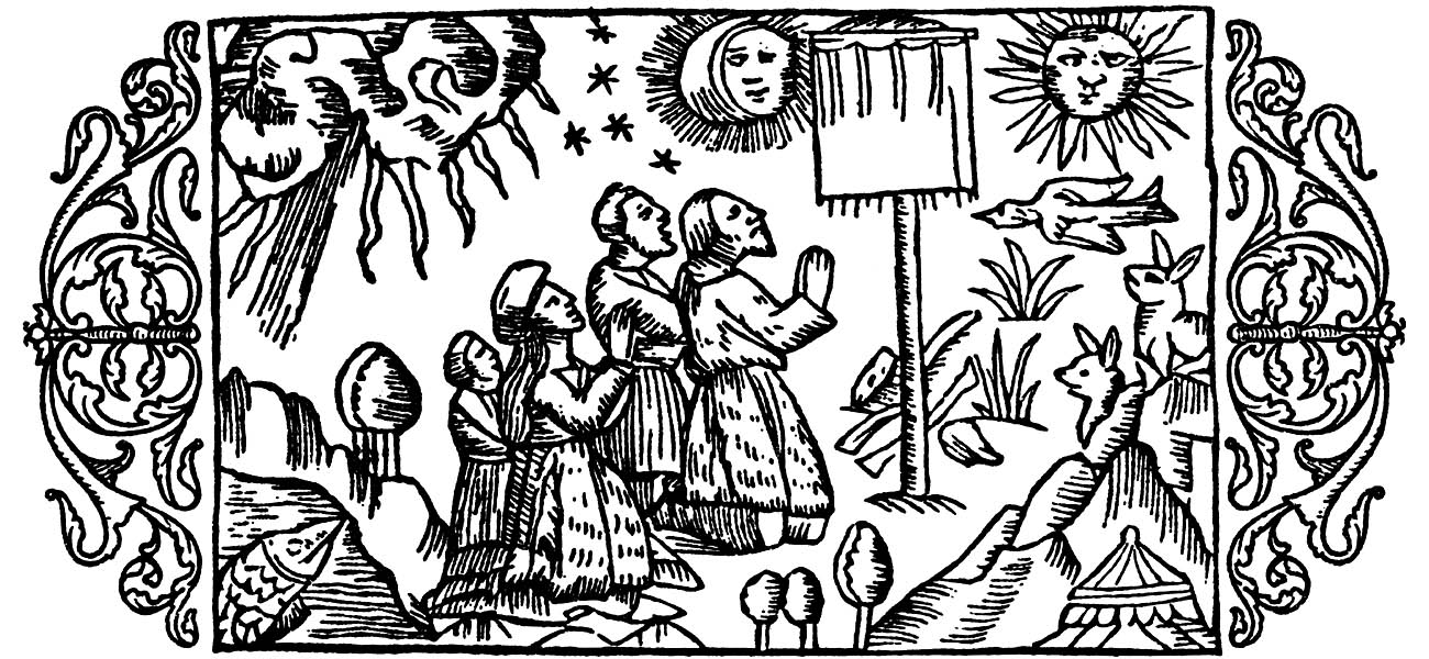 Four persons are praying in front of a cloth on a pole. Around the pole animal bones from burnt offerings are seen. We also see the moon, the sun, a bird, animals and a fish – all things that the people worship.